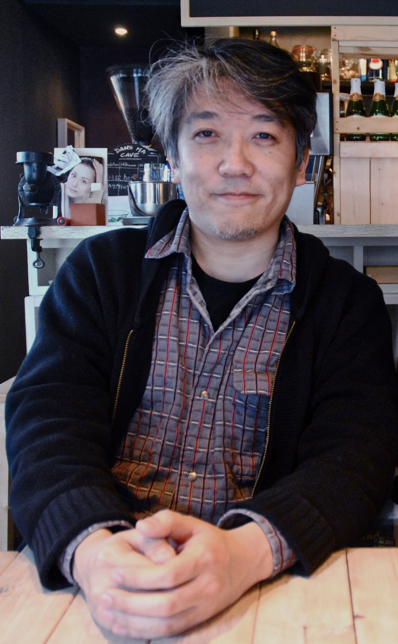 Crop of a photo of Masashi Hamauzu, taken on January 18, 2012 in Yokohama, Japan by jeriaska